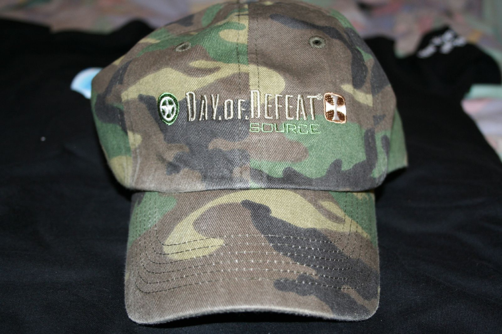 On it's way to Donetsk. Tks Alexxxx!!!!